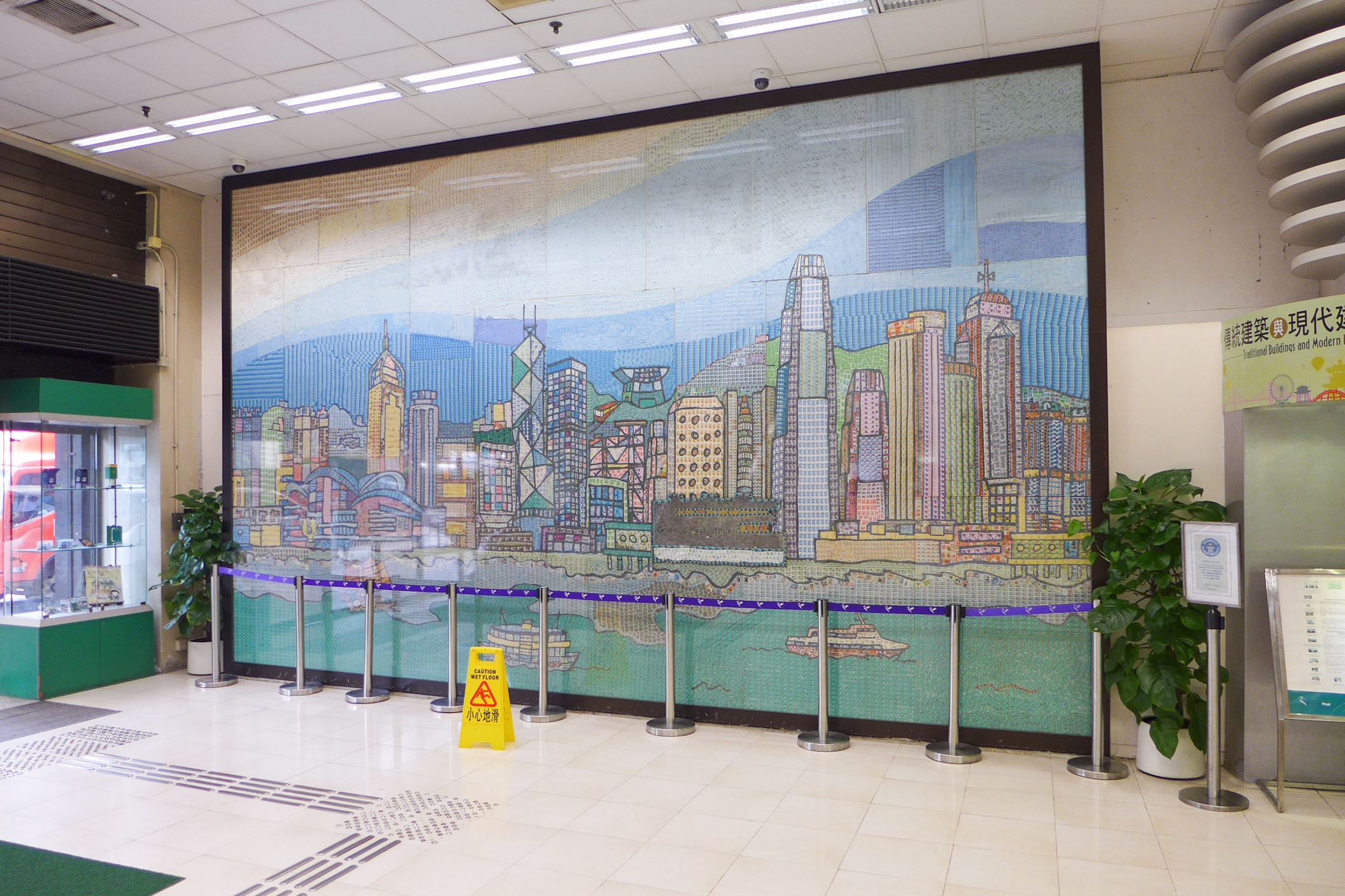 General Post Office Postal Gallery